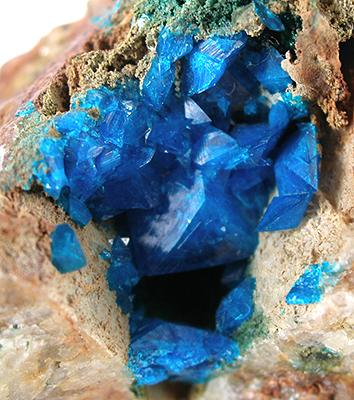 Liroconite Locality: Wheal Gorland, St Day United Mines (Poldice Mines), Gwennap area, Camborne - Redruth - St Day District, Cornwall, England, UK (Locality at ) Size: small cabinet, 6.7 x 5.0 x 3.2 cm Liroconite This mine produced the world�s finest liroconite specimens more than 150 years ago. Nestled in a quartz vug are several, intensely blue, very lustrous, liroconite crystals, to .75 cm across. This is a fine, very old, specimen and almost never found in dealers stocks. The colro intensity and saturation here are top quality, and it is a rich specimen for the price compared to what I have seen over in Munich, in Euro pricing, especially